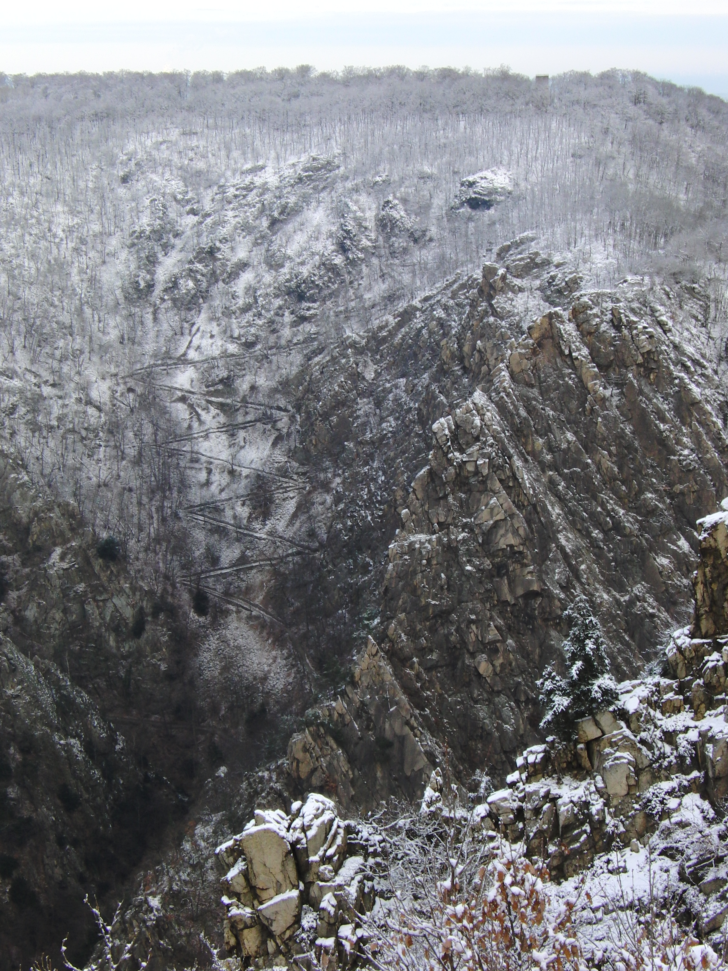 Schurre in Bodetal (valley of river Bode), Harz